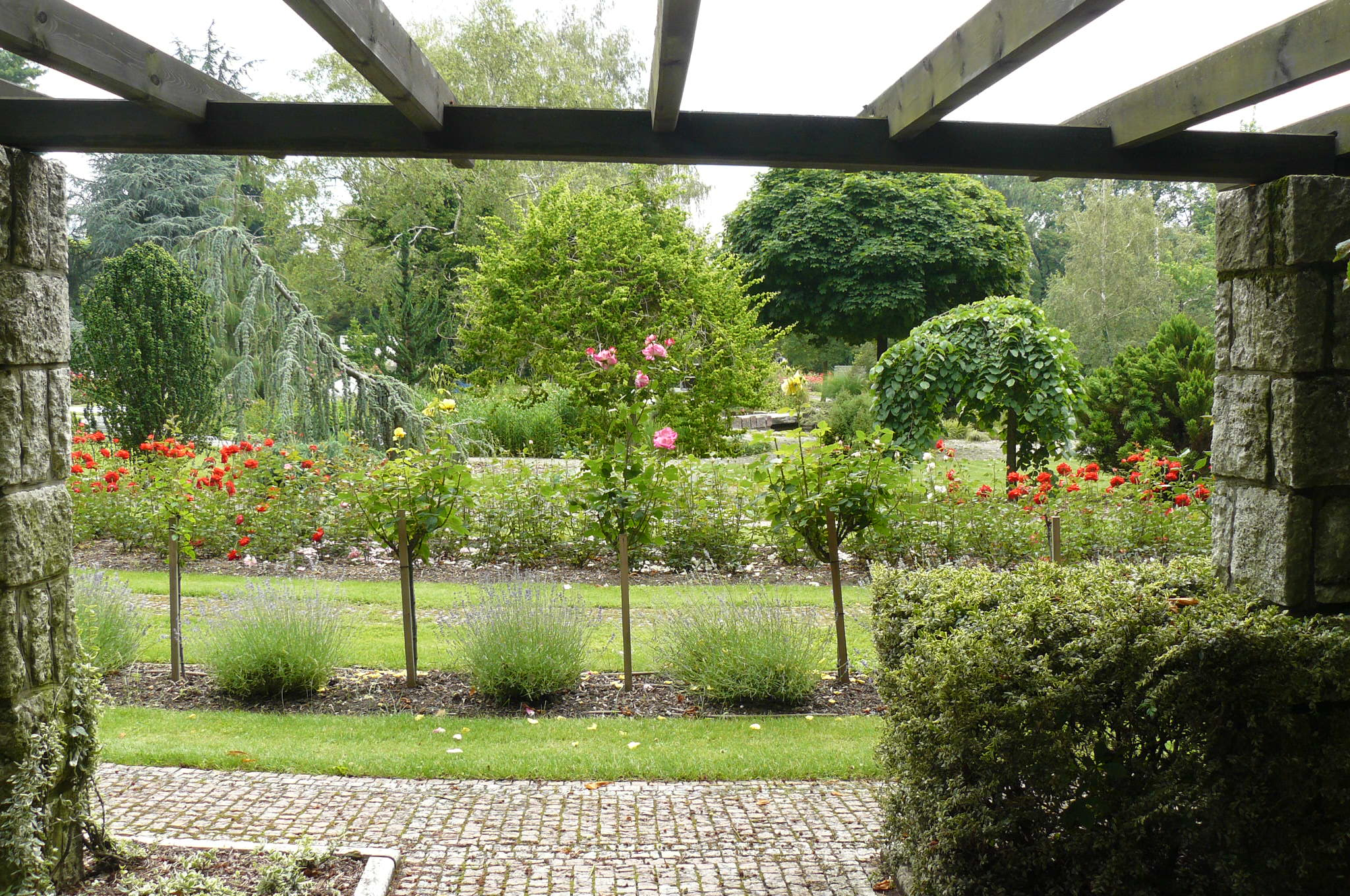 Botanic garden Bratislava